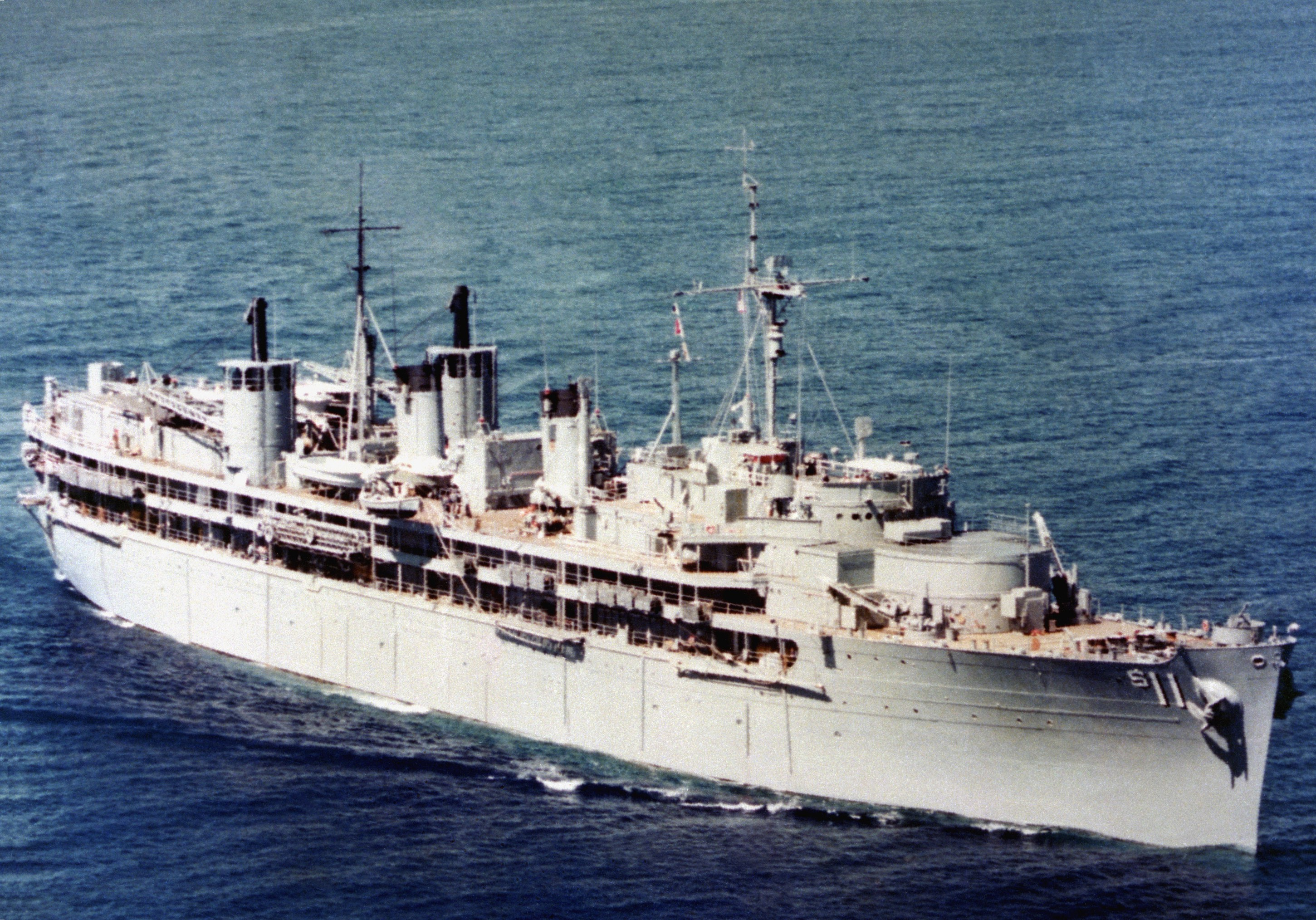 The U.S. Navy submarine tender USS Fulton (AS-11) underway in the Atlantic Ocean on 6 December 1984.